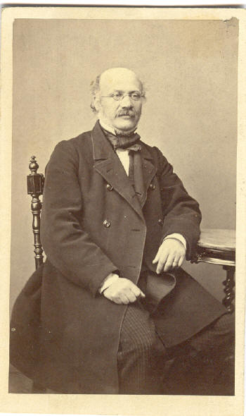 Portrait of swedish professor Pehr Erik Gellerstedt (1815-1881).